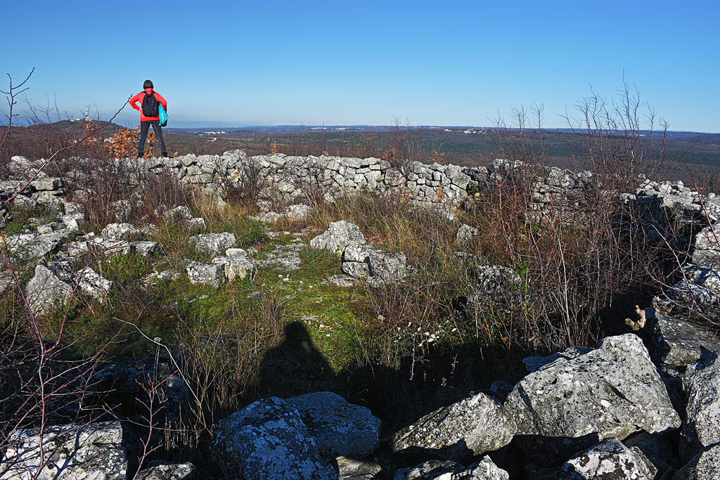 Maklavun tumulus is estimated to be 4000 years old.